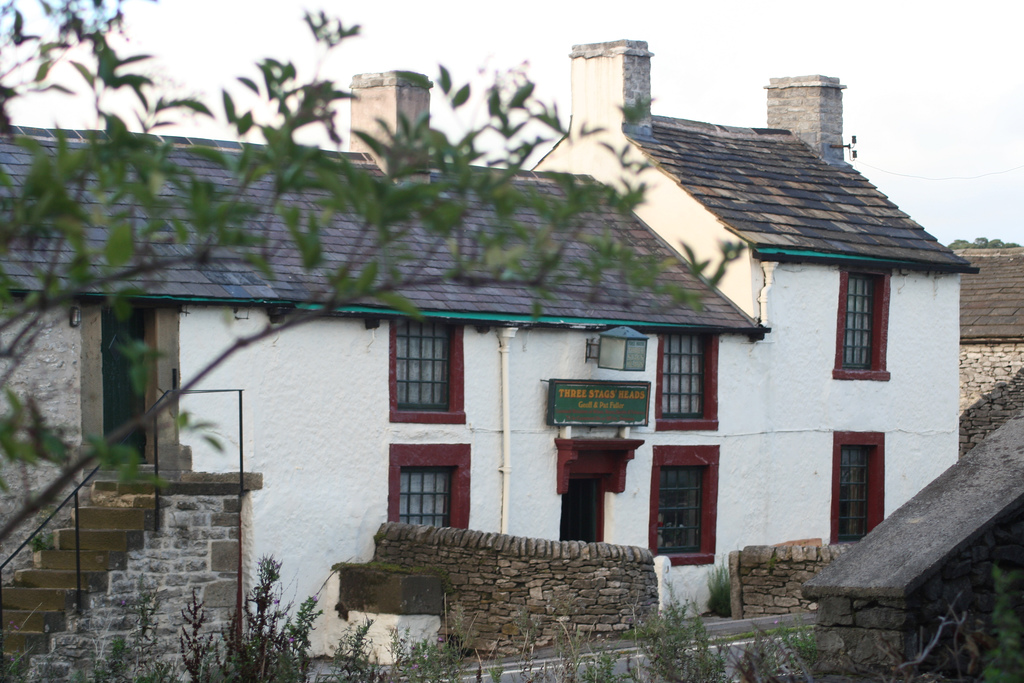 I last visited the Three Stags Heads in Wardlow Mires over 20 years ago. Back then it was the front room of a farm house; a small stone flagged room with a cast iron range, whitewashed walls, a small bar and a couple of rickety tables and chairs. It was as you imagined a farmhouse might be 200 years ago. The only ornament in the place was a glass display case containing the mummified carcass of a dead cat! The pub has now changed hands, but I was delighted to find that the interior has changed, not one bit - even the cat remains. The pub is a bit like the pub in American Werewolf in London. As you walk through the ancient front door, the room goes quiet and one senses that strangers are not exactly welcomed. It's quite an experience and one I'd recommend, especially as the ale is both cheap and well kept. There's a sign on the wall stating: Please do not ask for lager as a smack in the gob often offends - a true real ale pub!